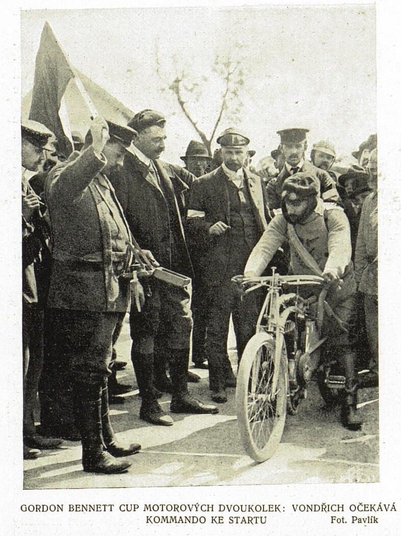 Václav Vondřich, Czech motorcycle racer, 1905